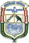 Coat of arms of the city of Juanjui.